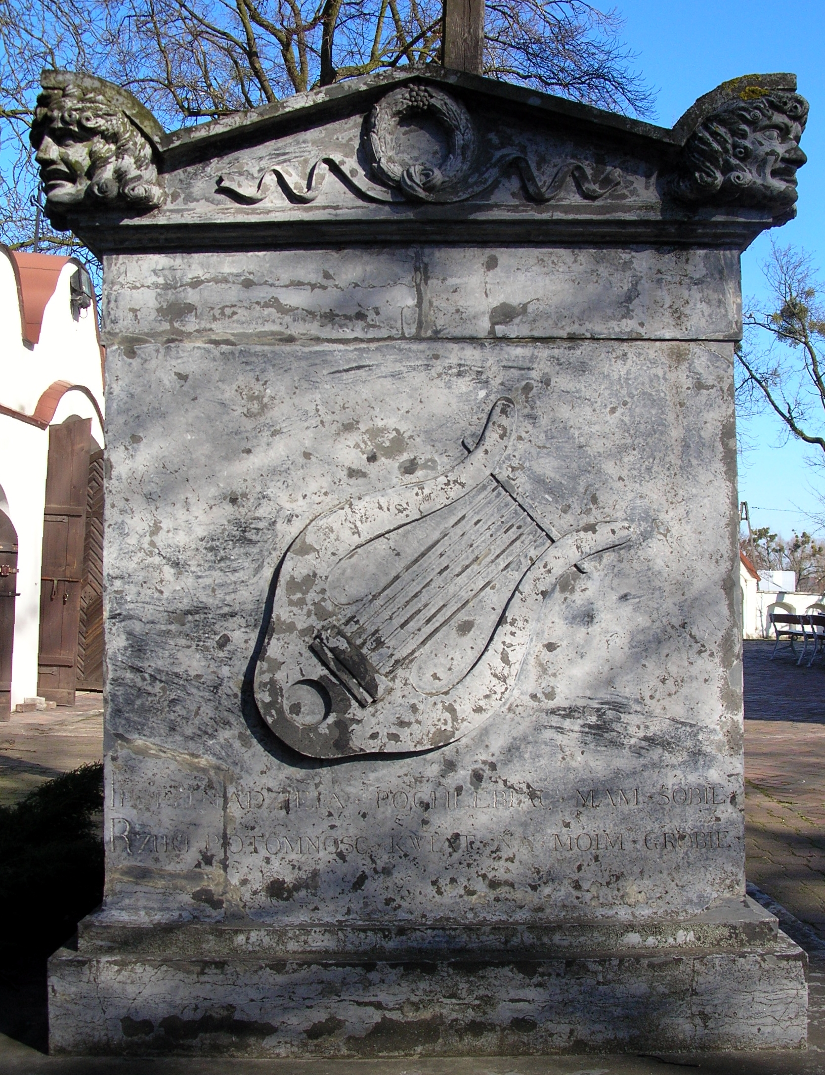 Tomb of Franciszek Dionizy Kniaźnin, Końskowola